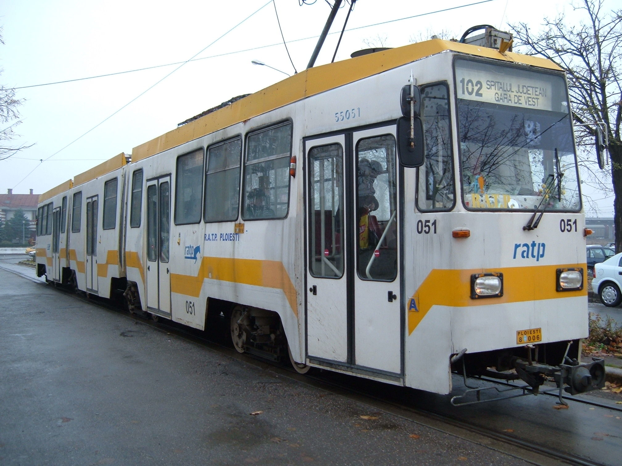 ITB V3A 051, tram line 102, Ploiești, 2006